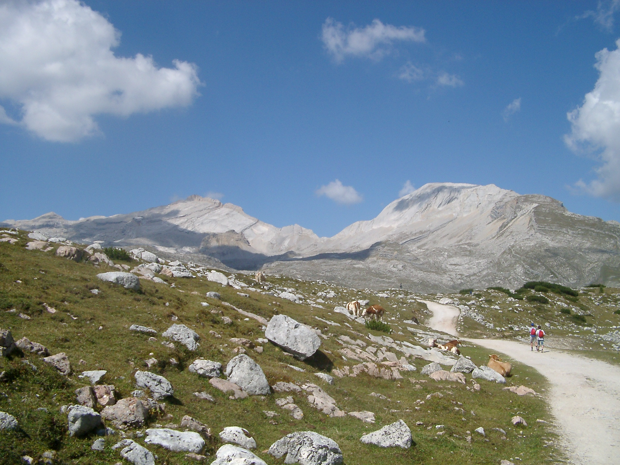 Mountains in Dolomites seen from Fanes Alp: the peaks from the left are: L Ciaval, Sas Dales Diesc, Sas dales Nü